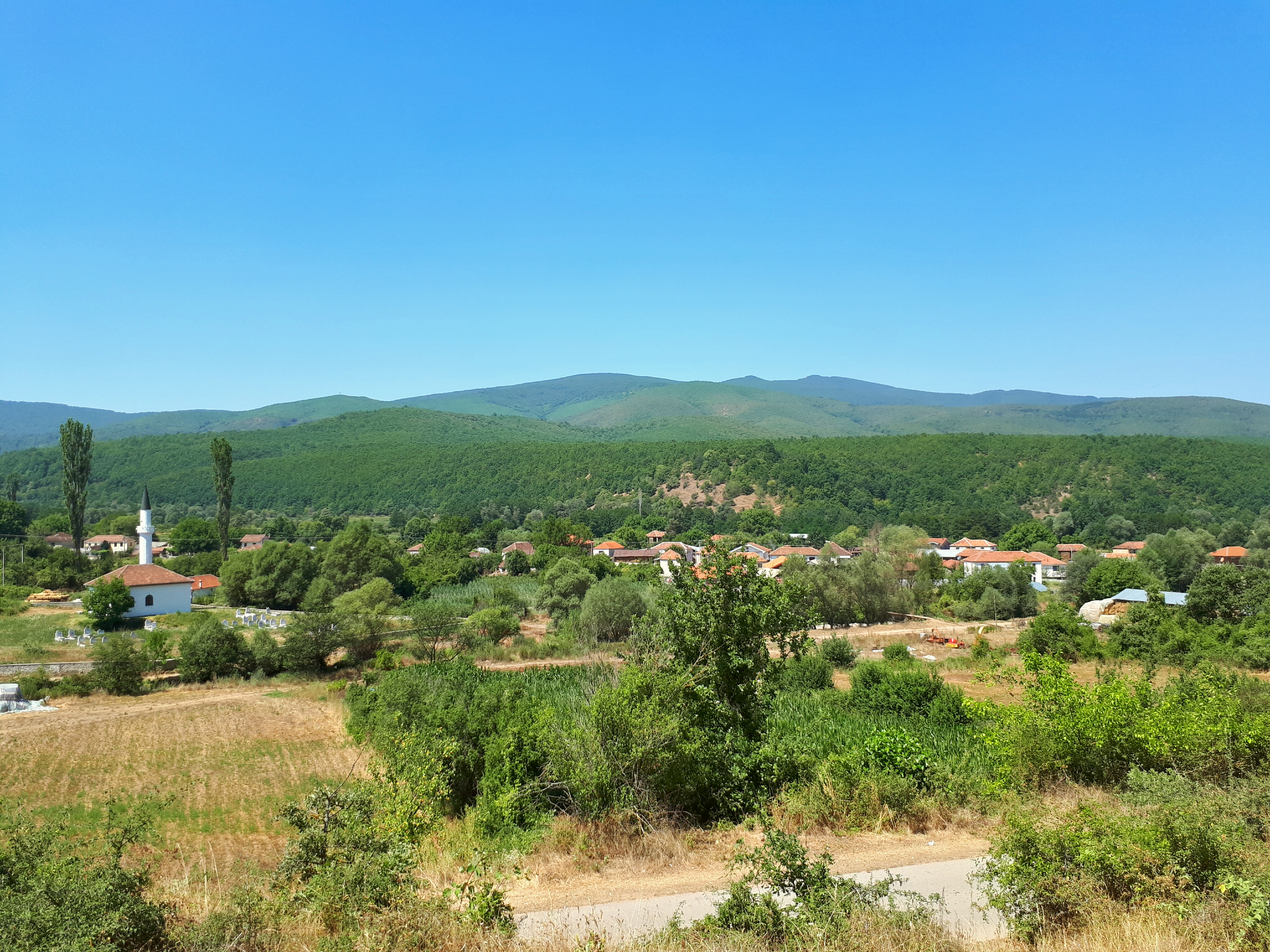 Part of the Veloexpedition in 2017